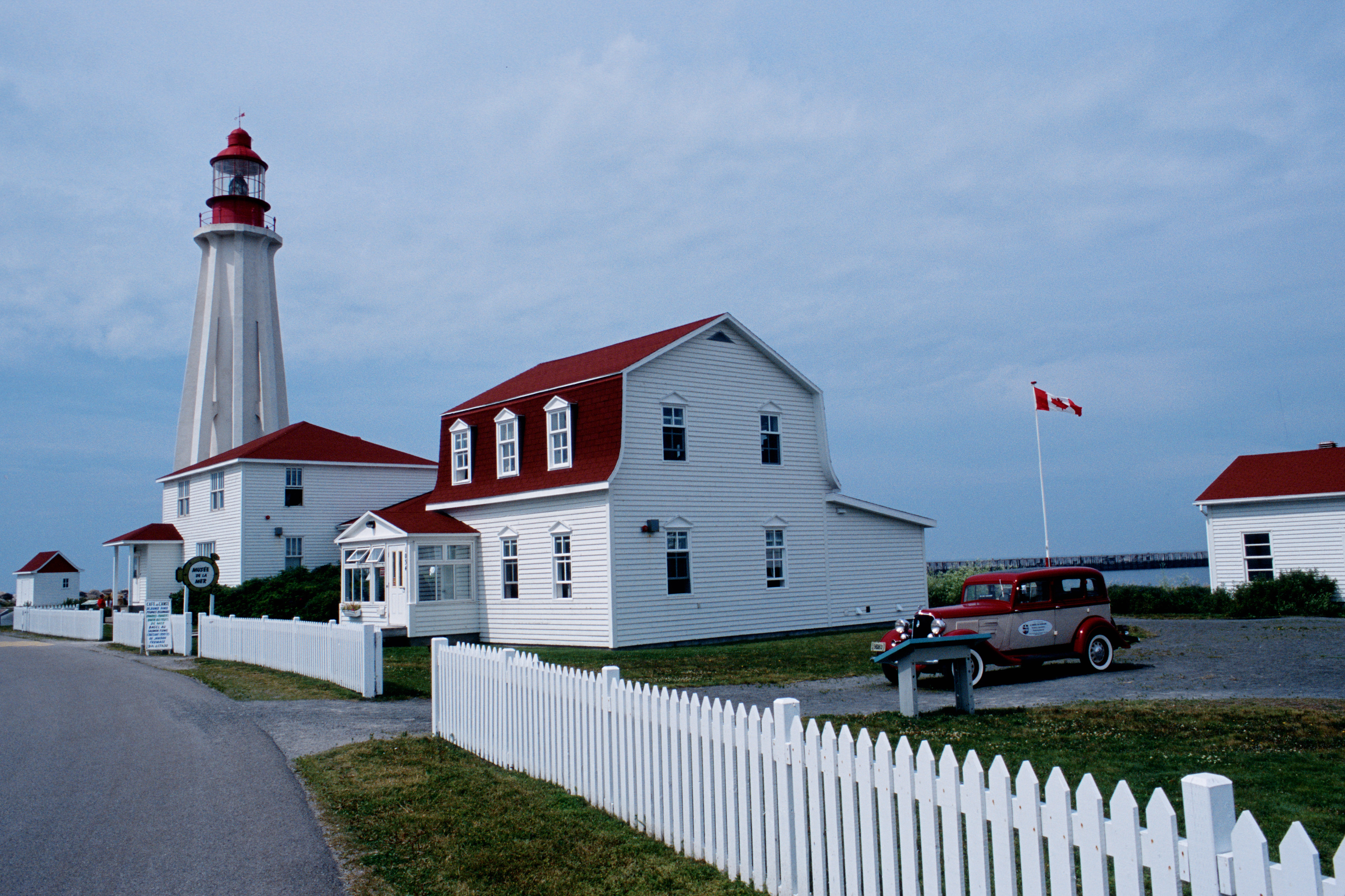 Pointe-au-Père Light, Quebec, Canada